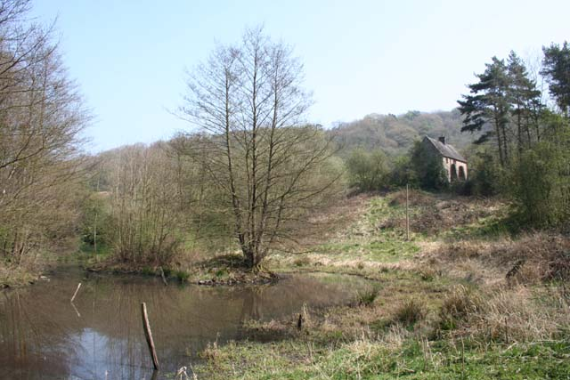 Cloughmeadow Cottage View from the bird hide in RSPB Combes Valley reserve.